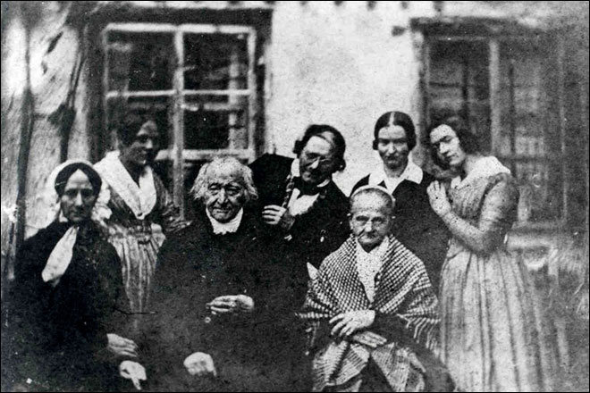 Constanze Mozart, wife of Wolfgang Amadeus Mozart, at 78 years of age, pictured front left in black 2 years before her death. (Her maiden name was Weber). Bavarian composer Max Keller is seated center front, and to his left is his wife Josefa. From left to right in rear: family cook, Philip Lattner (Keller's brother-in-law), Keller's daughters Luise and Josefa. The print is a 19th-century copy of the original daguerrotype photograph taken October 1840, at the home of composer Max Keller. This copy was found in the archive of the city of Altötting in 2004.